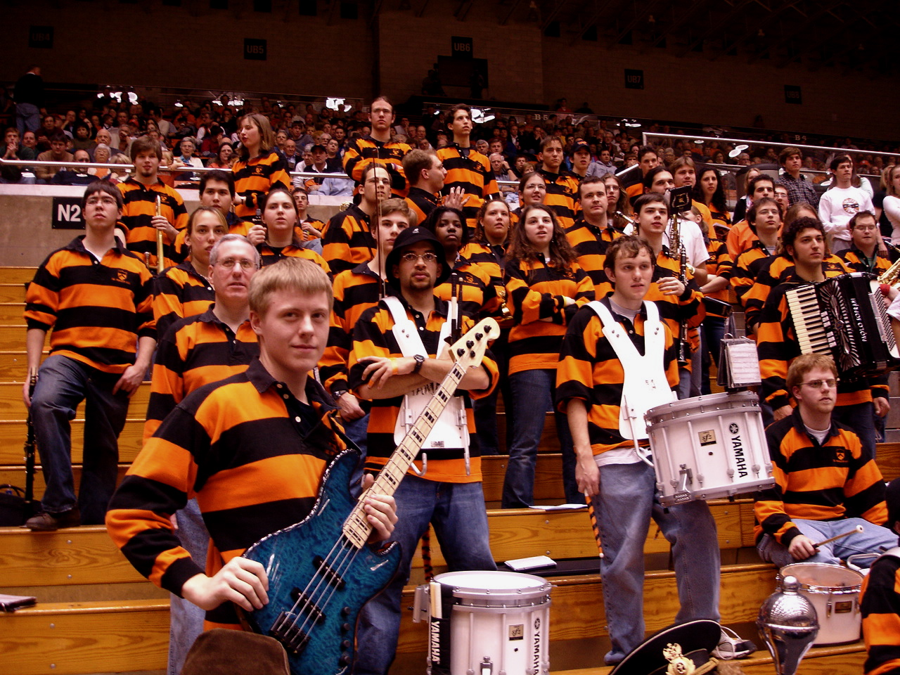 The Princeton University Band at a basketball game in Jadwin Gymnasium